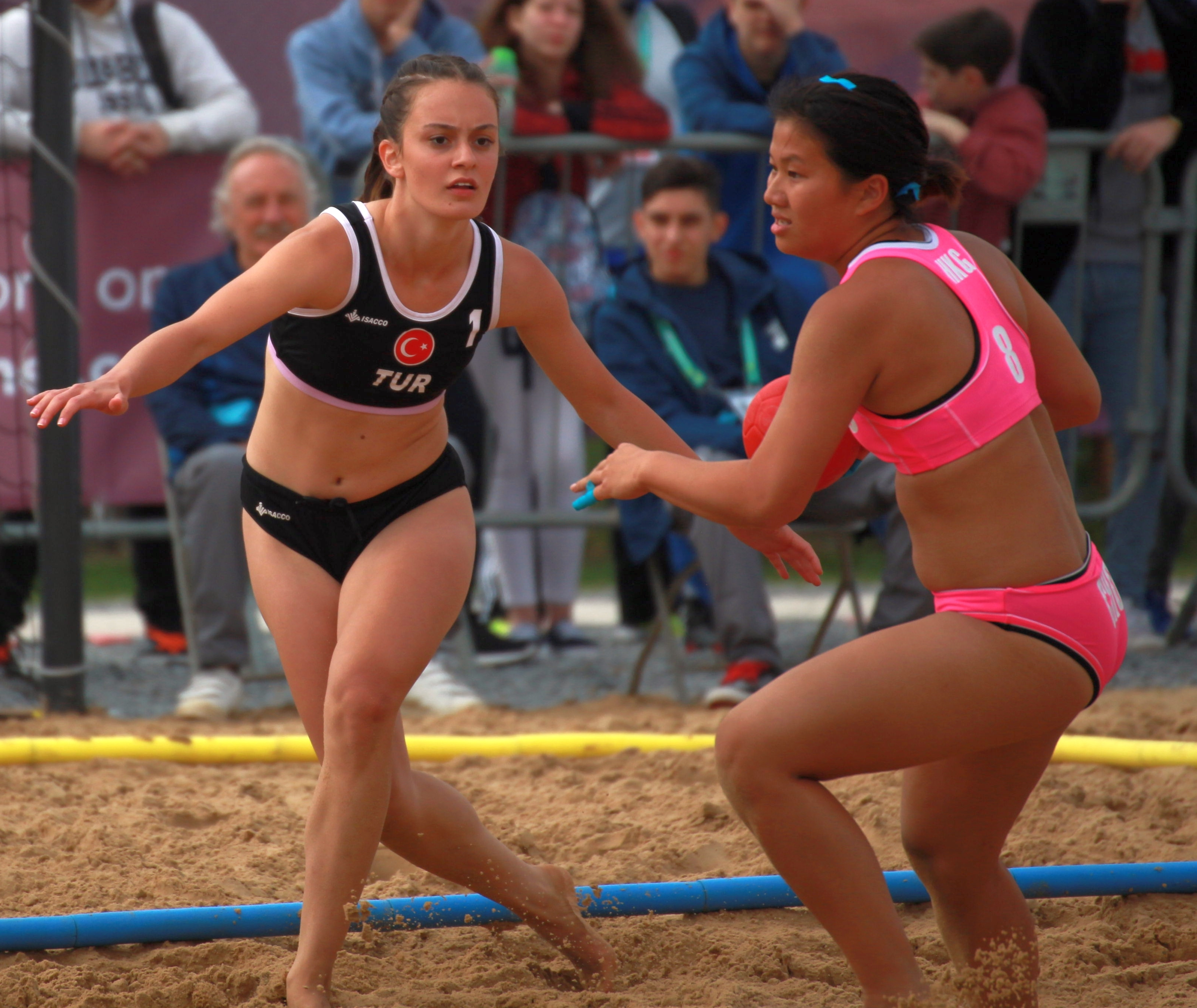 Beach handball at the 2018 Summer Youth Olympics at 12 October 2018 – Girls Women's Placement Match 9-10 – Turkey-Hong Kong 2:0